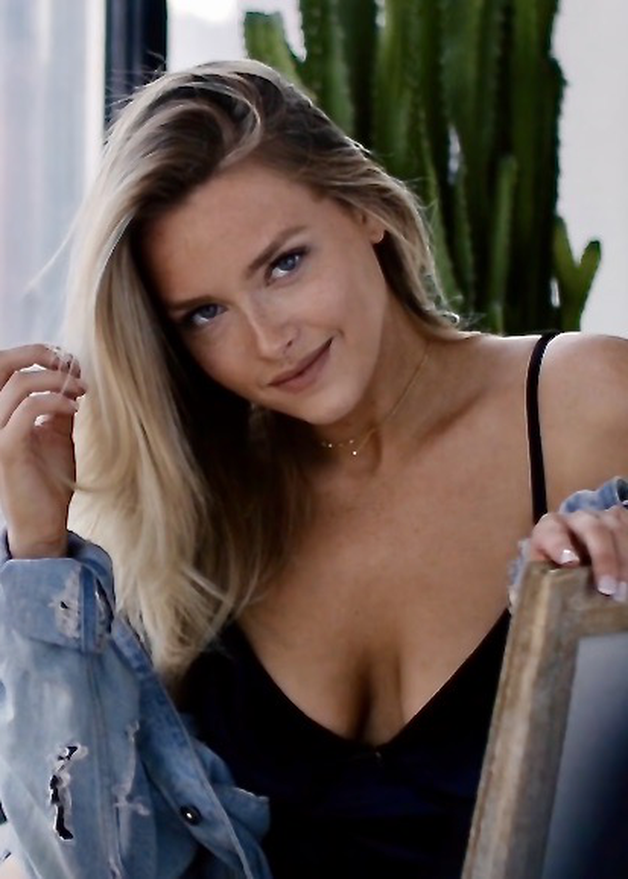 Camille Kostek in July 2017